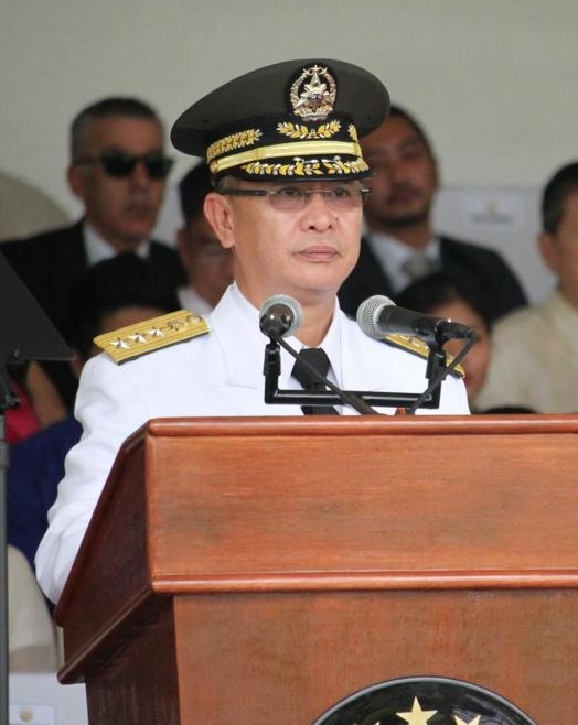 Acting AFP Chief Lt. Gen. Glorioso Miranda replaces outgoing Armed Forces of the Philippines Chief of Staff General Hernando Iriberri.